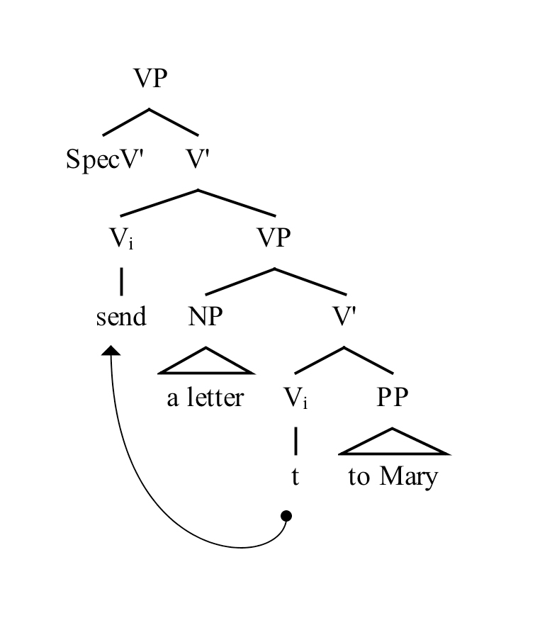 The V-Raising of a Simple Dative according to Larson